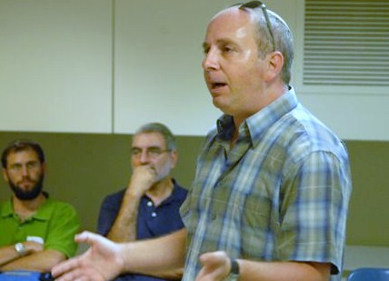 Yuval Rivlin, 6.2010